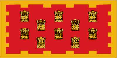 The County Flag of Greater Manchester.